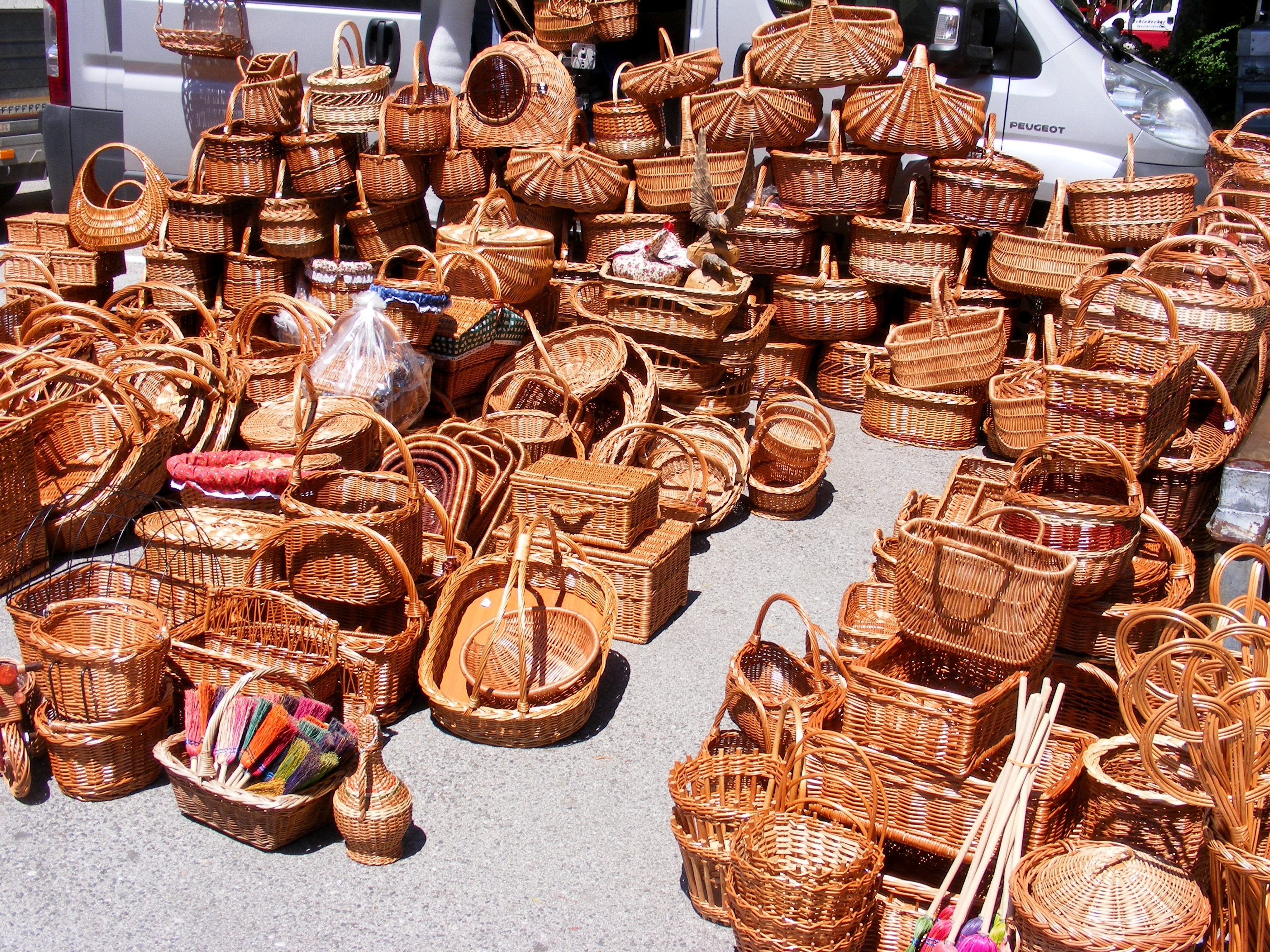 On Schrannen Market, city of Salzburg, Austria